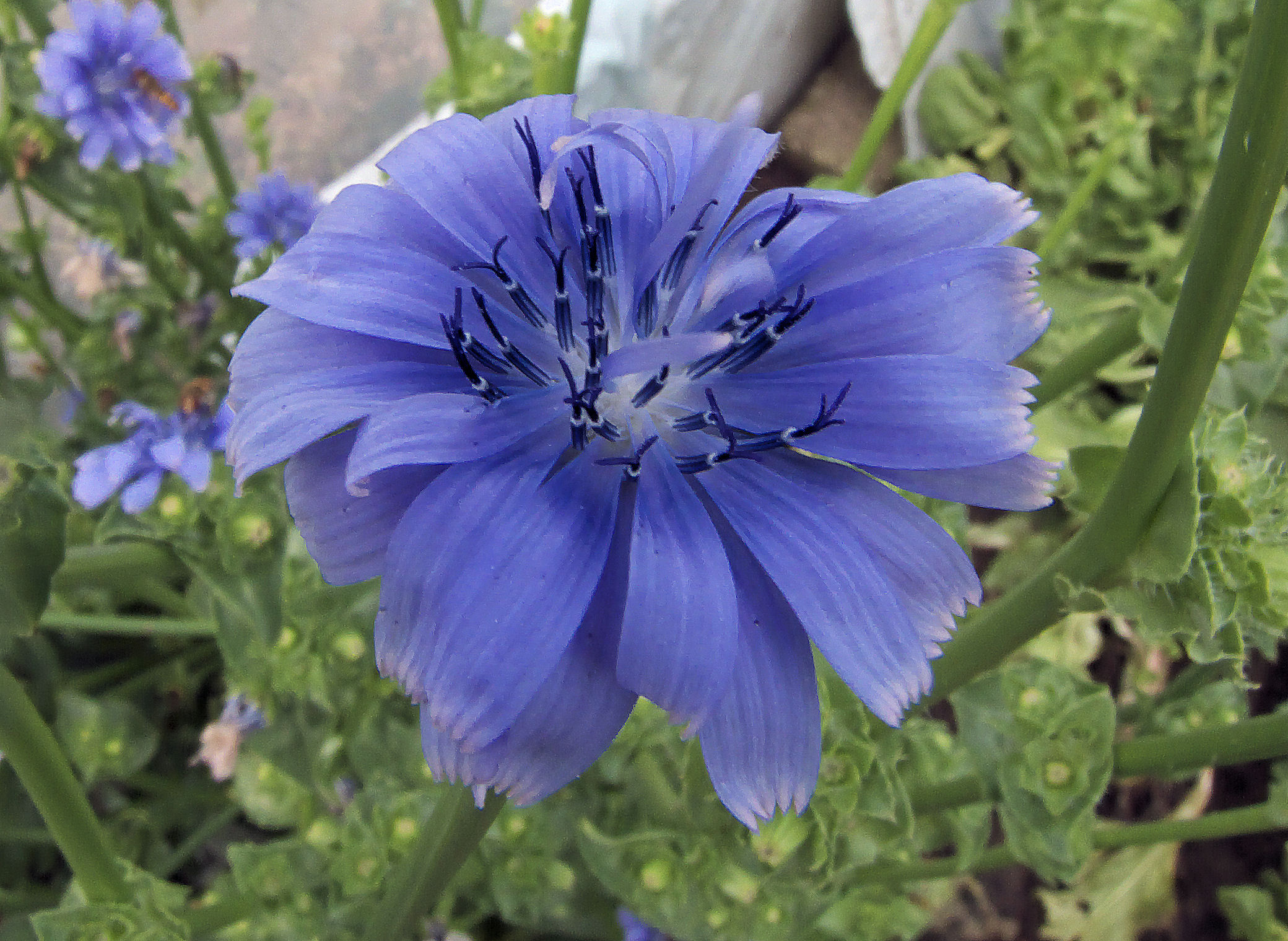 Cichorium endivia flower